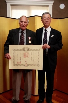 Kunihiko Tanabe, Consul-General in Calgary, conducted the investiture ceremony for Wally Ursuliak, curler, at the Official Residence of the Consul-General of Japan in Calgary on June 15, 2017. Ursuliak was given the Order of the Rising Sun, Gold and Silver Rays from Tanabe.